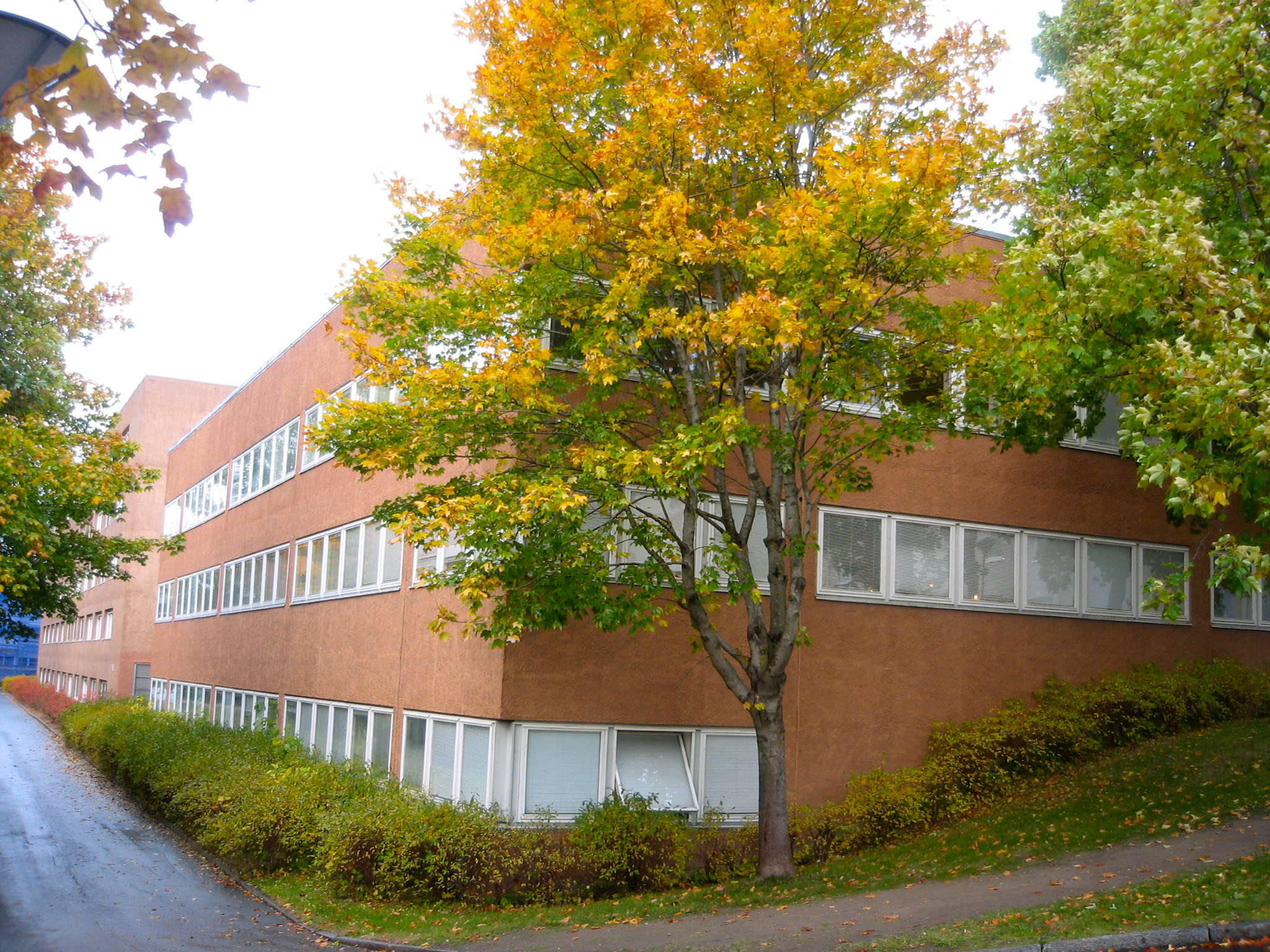 IT-bygget (=The information technology building) at Campus NTNU Gløshaugen, Trondheim. The first wing erected in 1965, the second in 1973. Architect: Herman Krag